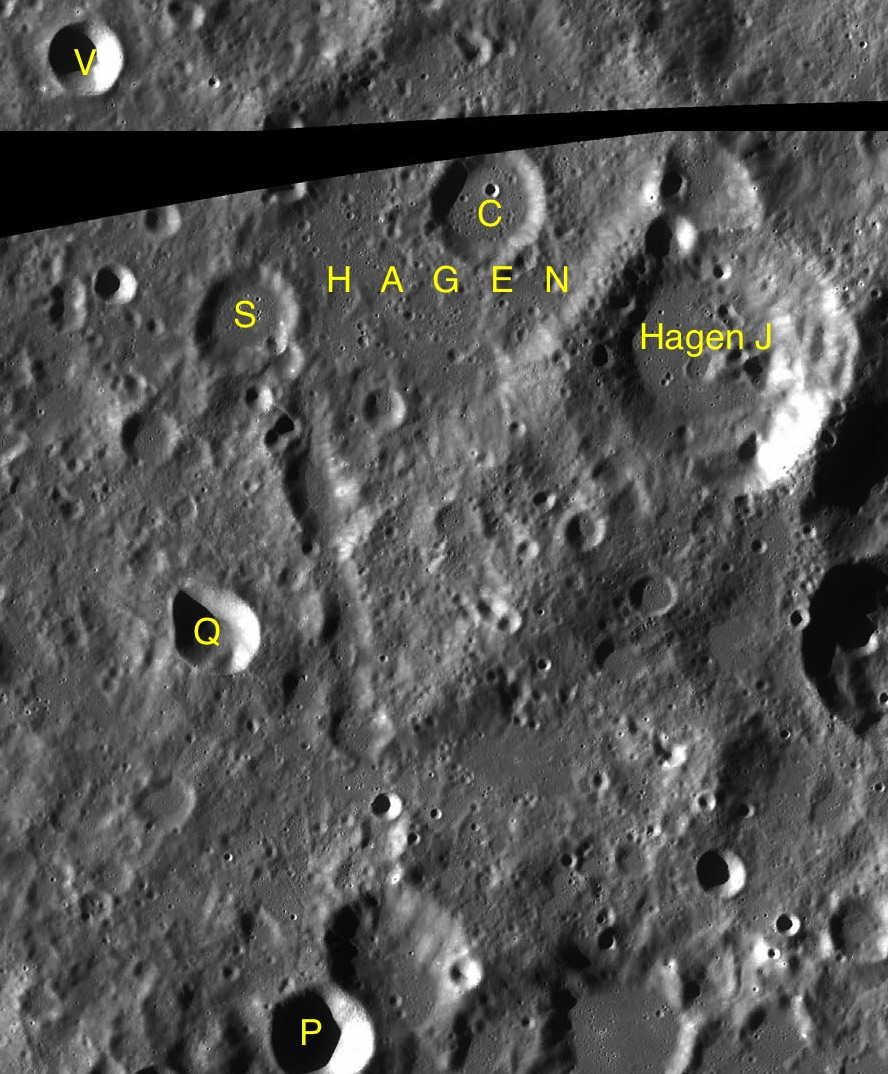 Parts of the charts LAC-118, LAC-131